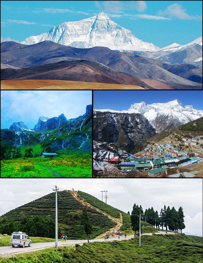 From top going clockwise: Mount Everest, Namche Bazar, Kanyam and Barun Valley.